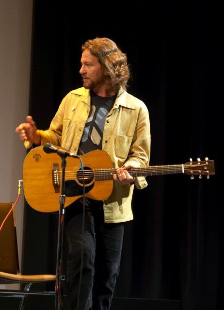 Eddie Vedder plays a solo acoustic set following the premiere of the documentary 'Body of War'.